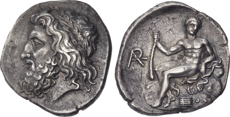 Megalopolis, 363 - 362 BC. Silver stater (23.5mm, 11.76 g). Signed on the reverse by the magistrate OΛΥ(ΜΠΙΟΣ). Laureate head of Zeus Lykaios to left / Youthful Pan, nude and with his head facing, seated to left on a rock that is covered by his mantle, holding a lagobolon in his right hand and resting his left elbow on the rock; to left, Arkadian League monogram; at the foot of the rock, syrinx and, in small letters